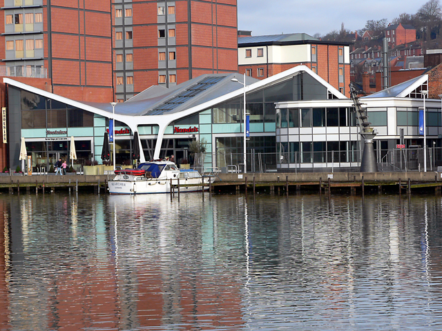 A Sam Scorer Building. Originally a car showroom, later a library and now a bar, this example of the local architect's work shows off his fascination with innovative rooflines (technically, it's a hyperbolic paraboloid). See also 108843